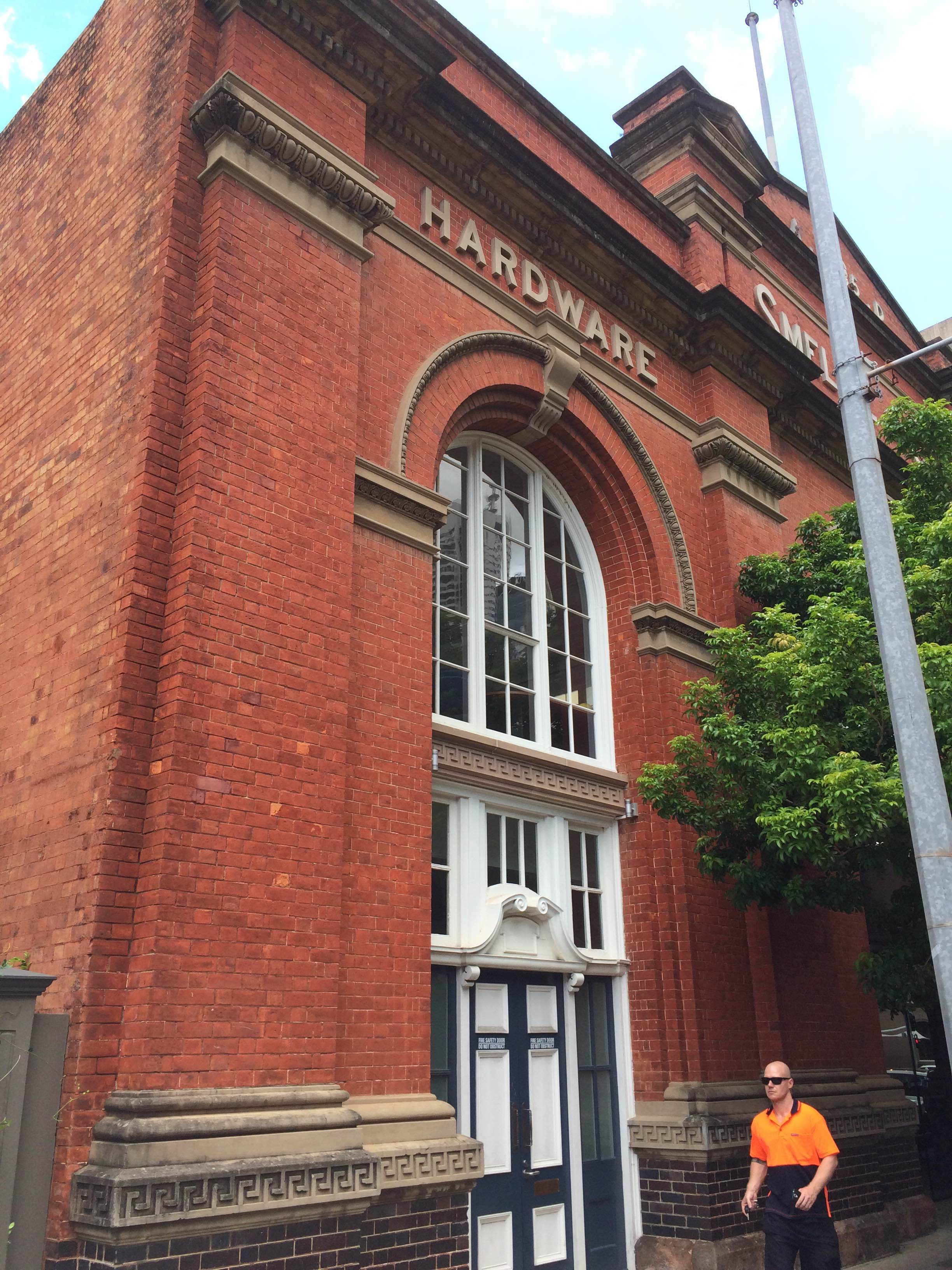 Smellie's Building, window detail, 2015